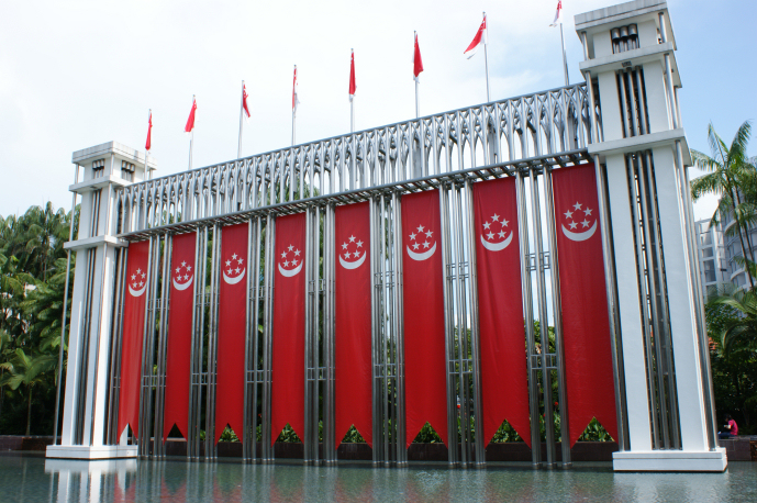 Singapore national flags and banners hung up in Istana Park along Orchard Road opposite Plaza Singapura to celebrate National Day.